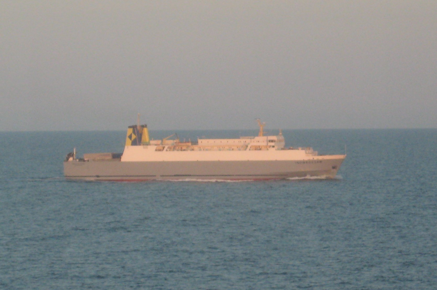 Polish cargo ship M/S Inowroclaw in Baltic Sea. IMO Number: 7804053 MMSI Number: 261145000 Callsign: SQKS Length: 137 m Beam: 23 m